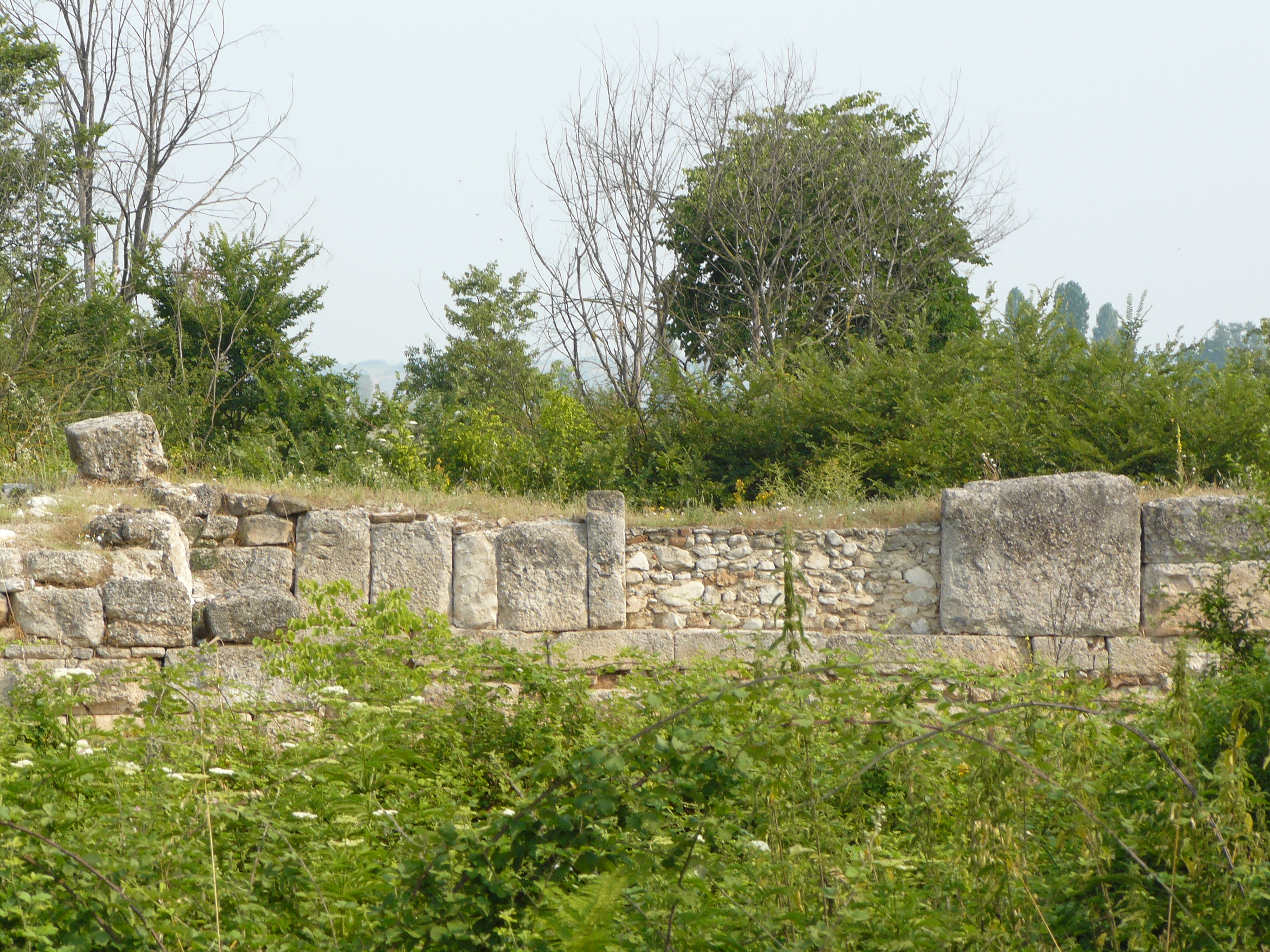 Walls of ancient city Dion in Greece